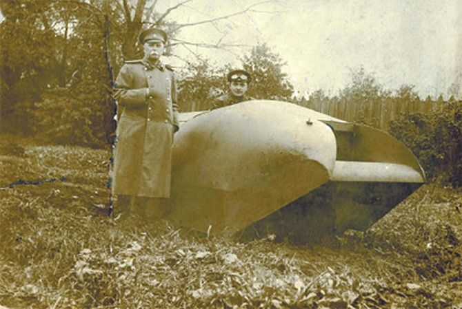 A picture of the 'Vezdekhod' prototype tank built by Aleksandr Porokhovschikov